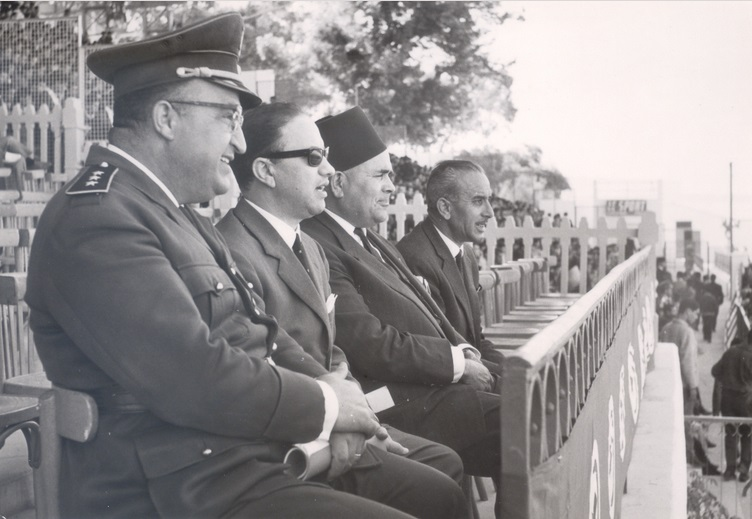 Young Beji Caïd Essebsi with Bahi Ladgham